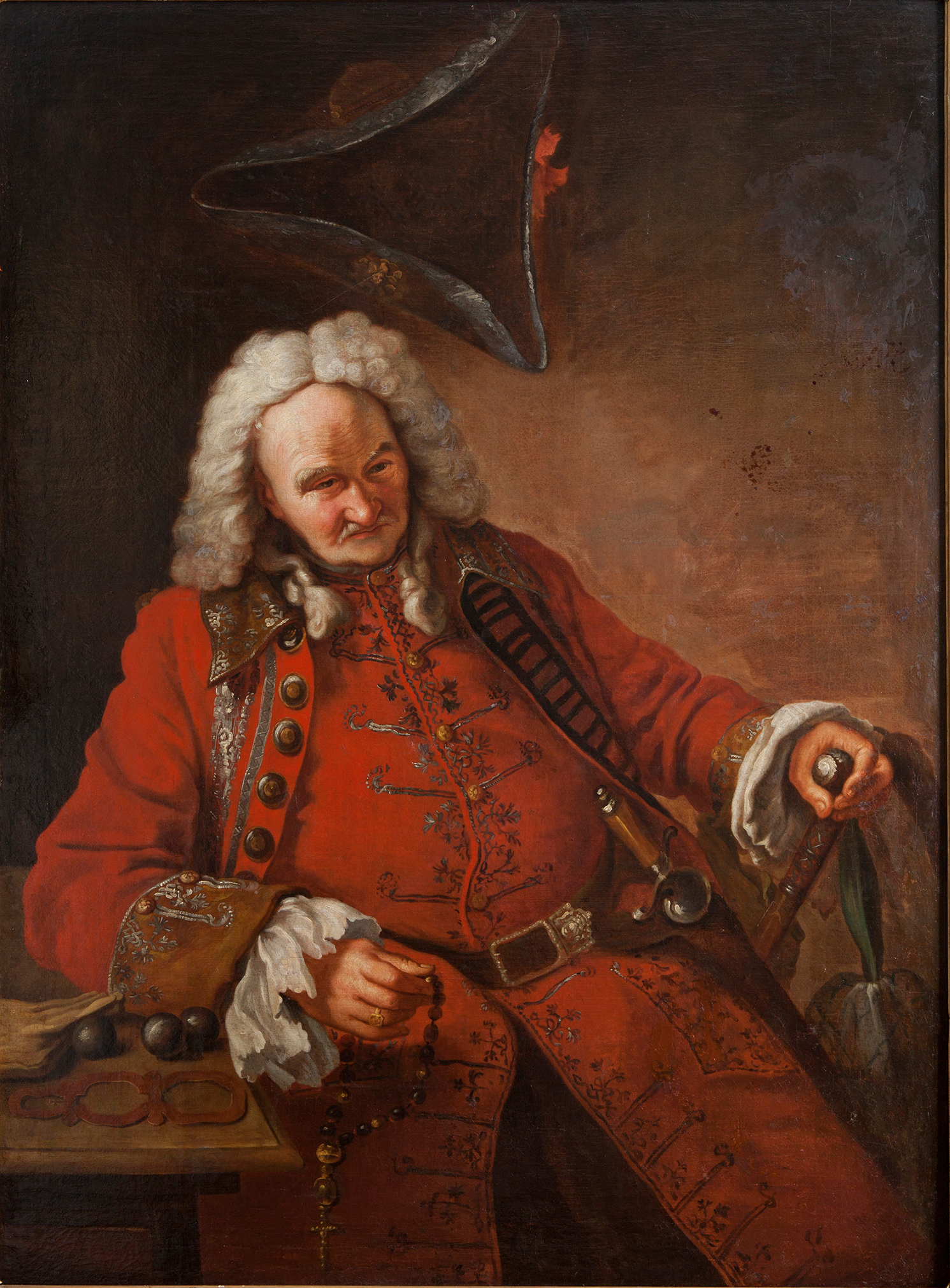 Portrait of the Jester Balakirev (1699-1763)